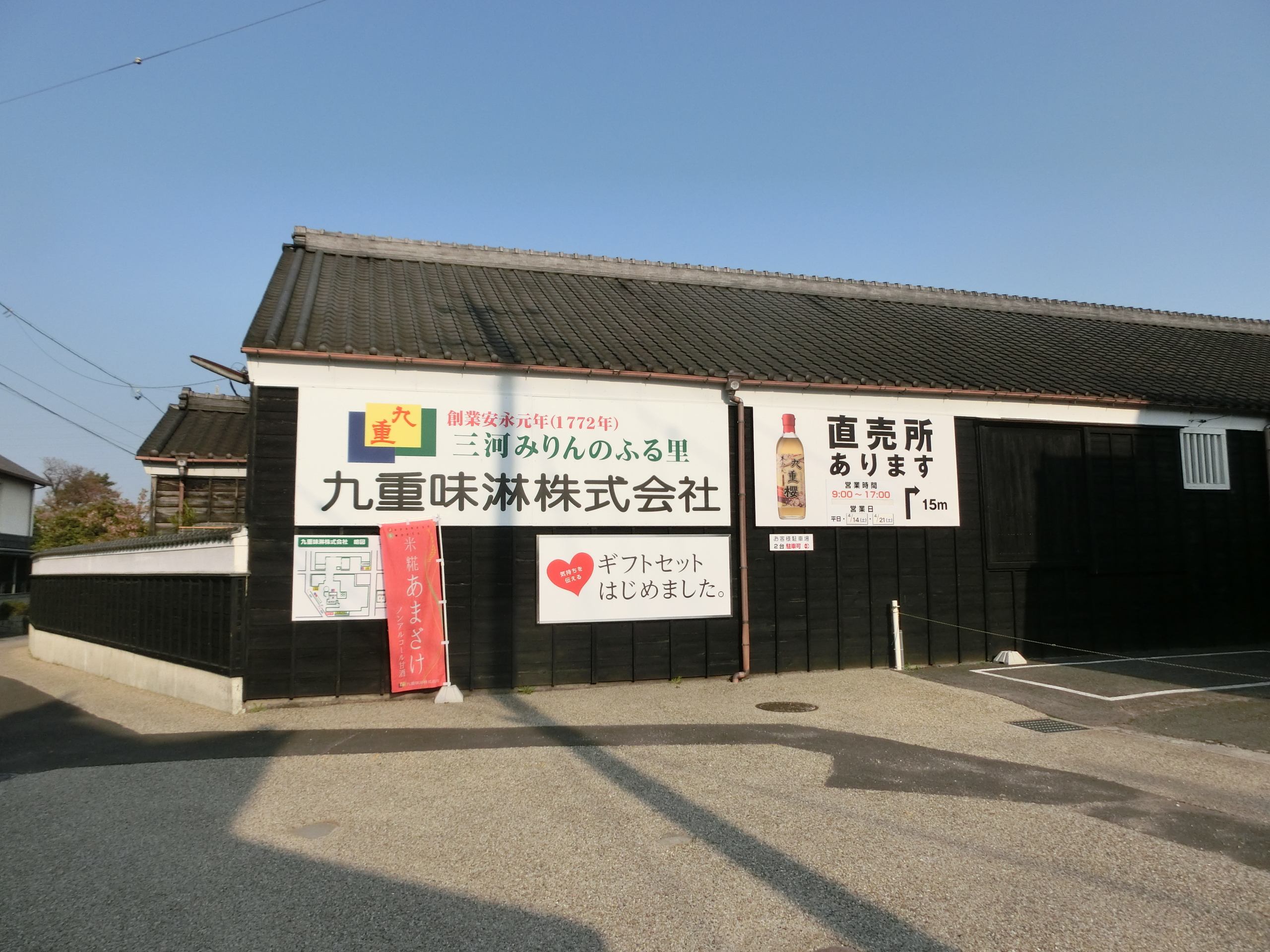 Kokonoe Mirin Head Office